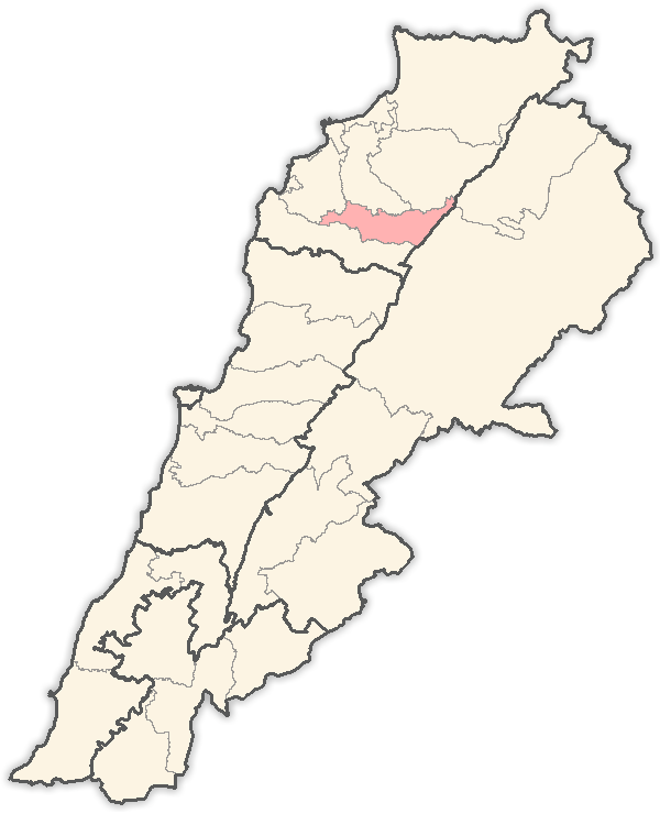 Map of districts in Lebanon, highlighting the Bsharri District